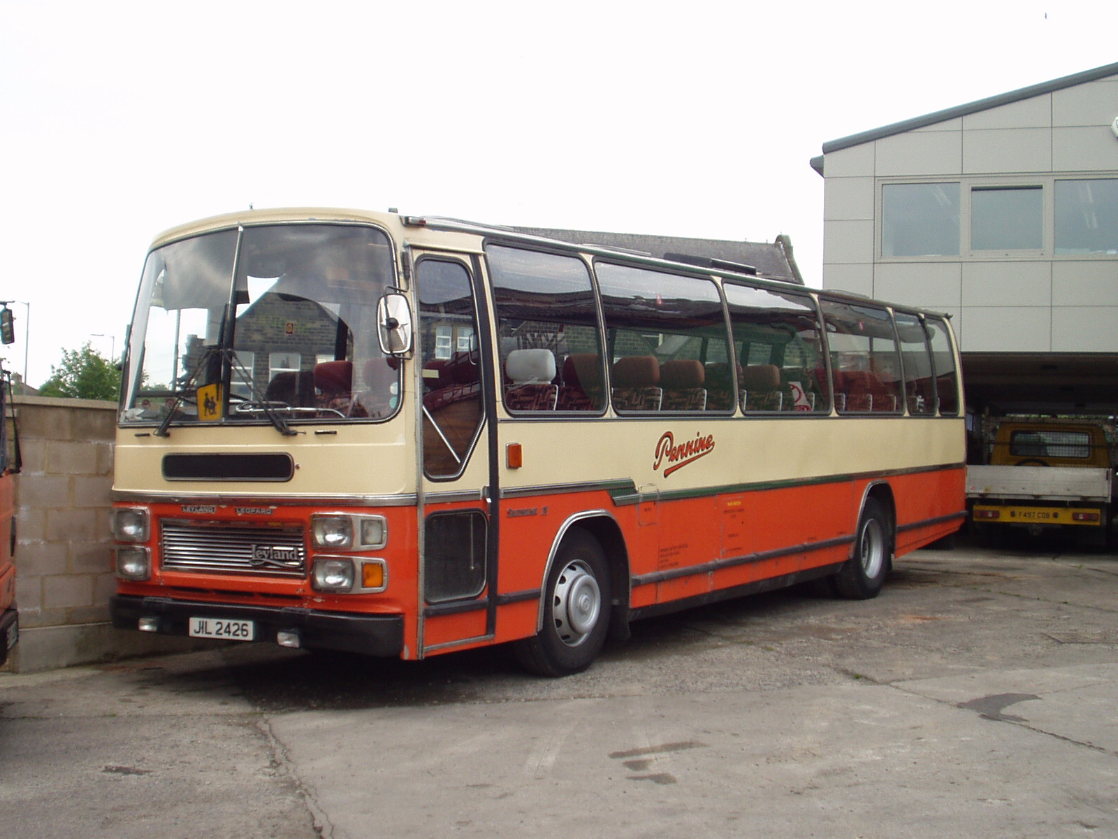 Photographer: Dave Root Source: Olympus C-220Z digital camera Date: 2005-06-?? Subject: Leyland Leopard Coach / Plaxton Supreme IV bodywork / Pennine Motor Services Location: Pennine Motor Services depot